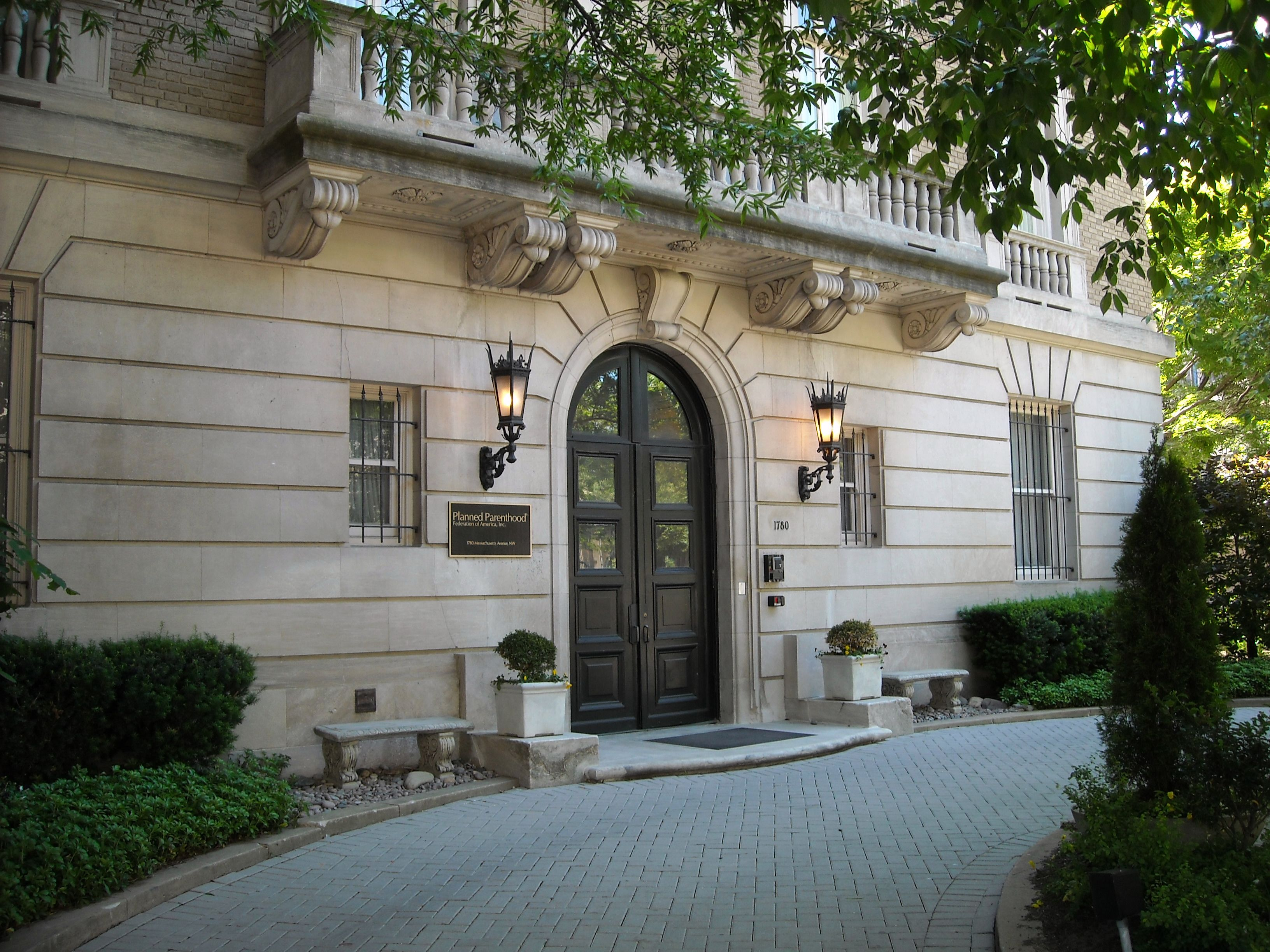 Entrance to the Planned Parenthood Federation of America headquarters in Washington, D.C. Please note, this is no longer the Planned Parenthood building, this building is now under Brookings Institute.